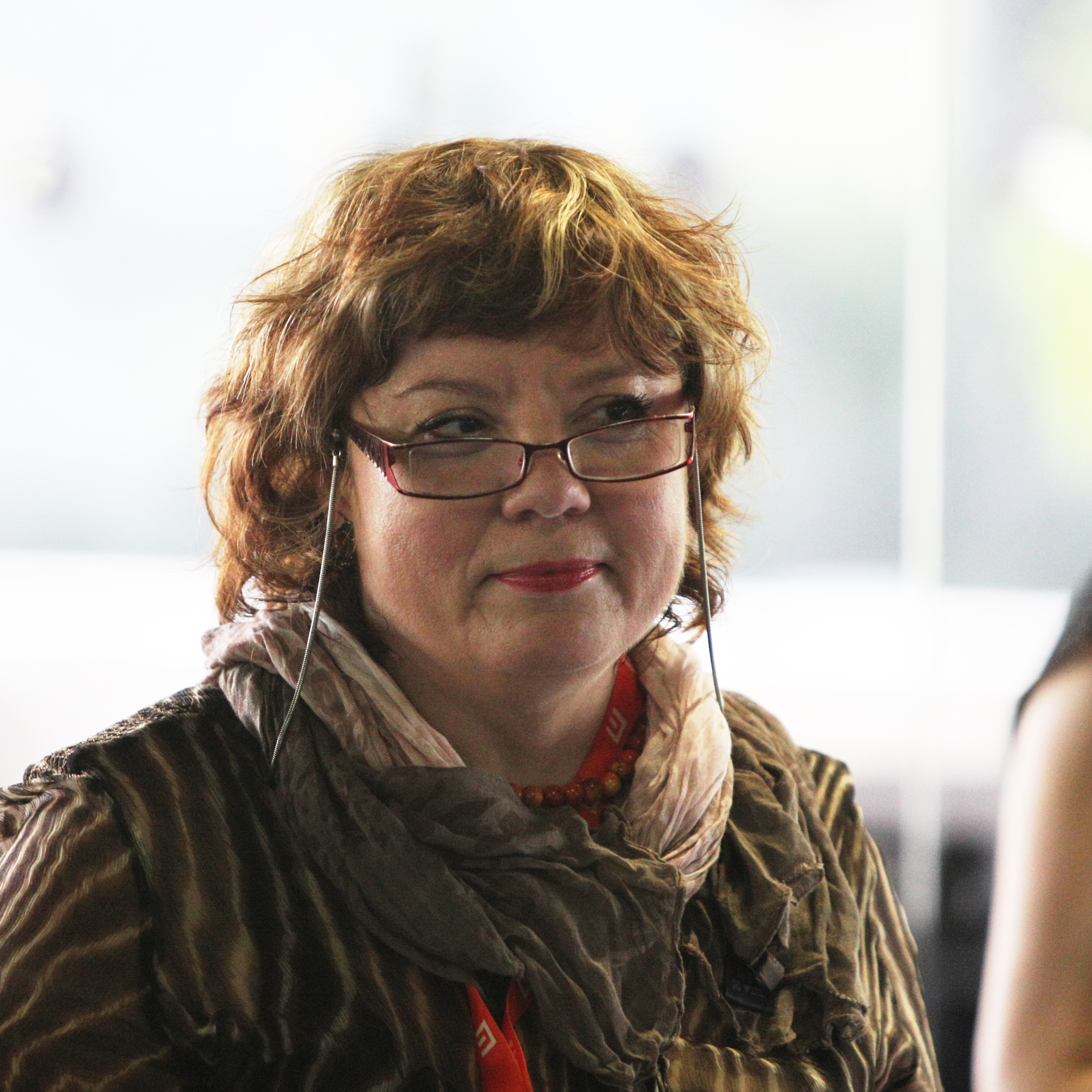 Canadian film critic and academic Christina Stojanova at 45th Karlovy Vary International Film Festival